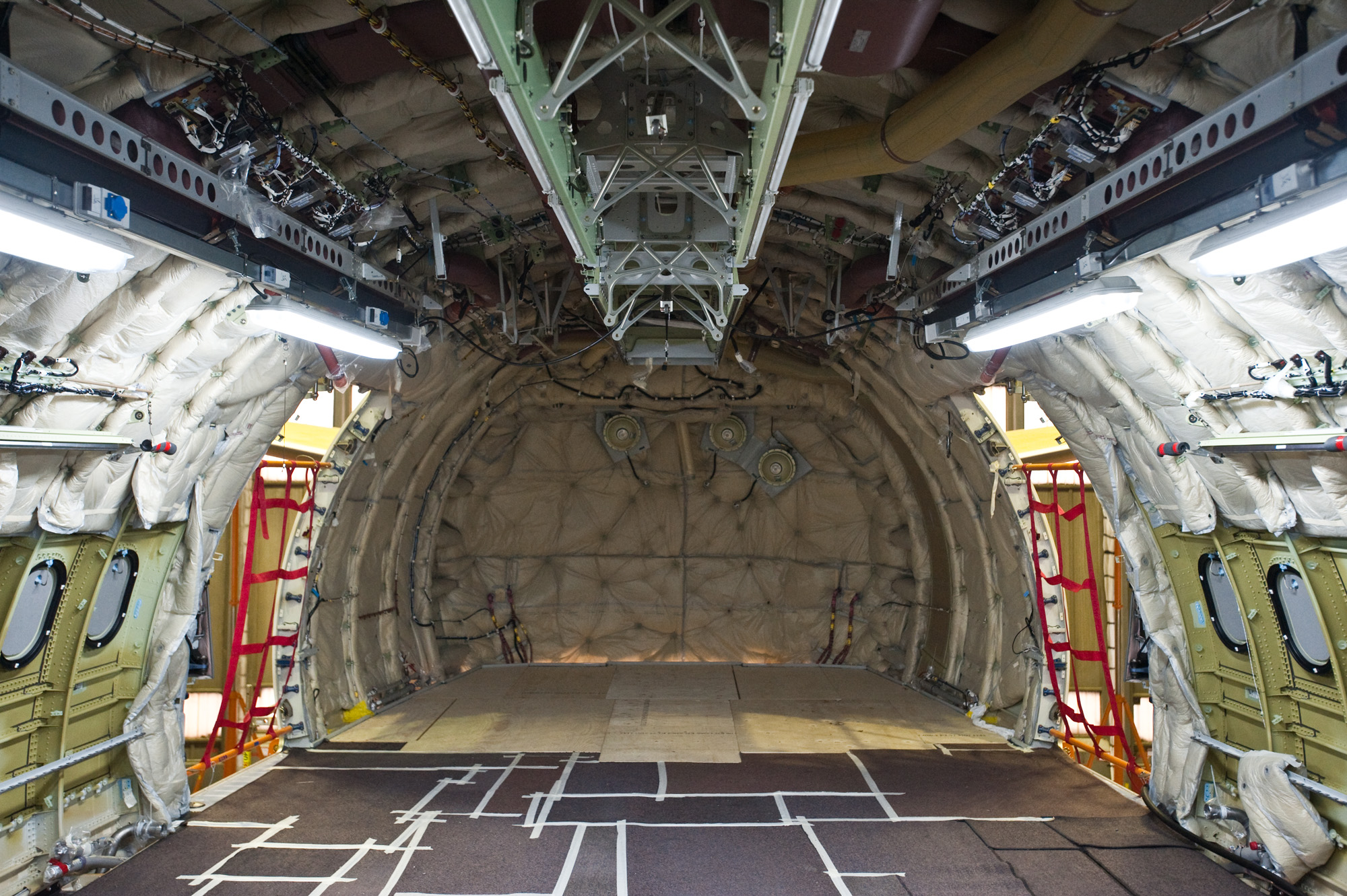 We turned an Airbus A330 passenger jet into a tanker plane for refueling in midair. It's highly specialized work, carried out by Iberia's maintenance and engineering teams.